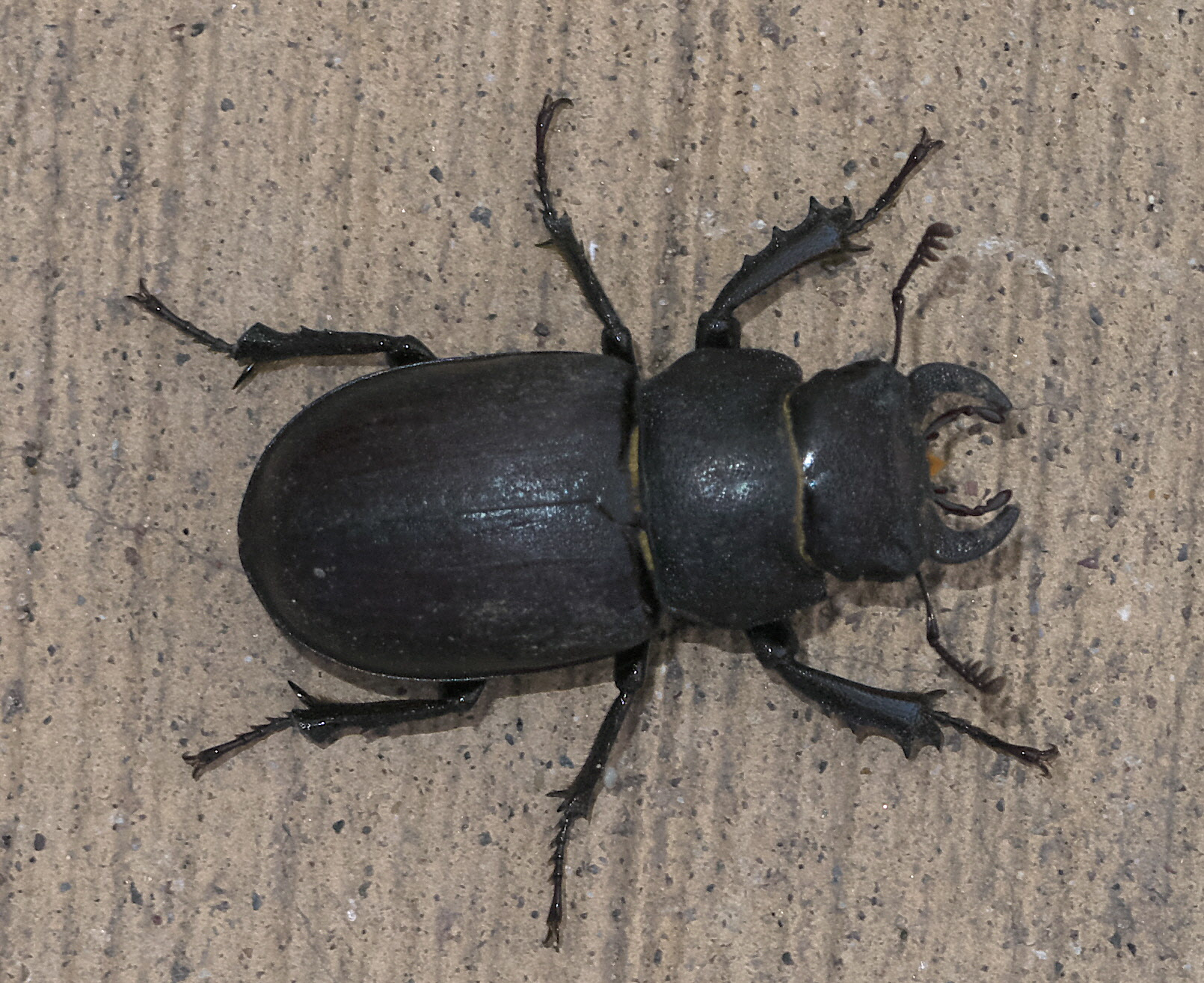 Lucanus mazama, cottonwood stag beetle, ID Confidence: 88